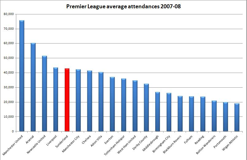 Average attendance of Premier League sides in 2007-08 season